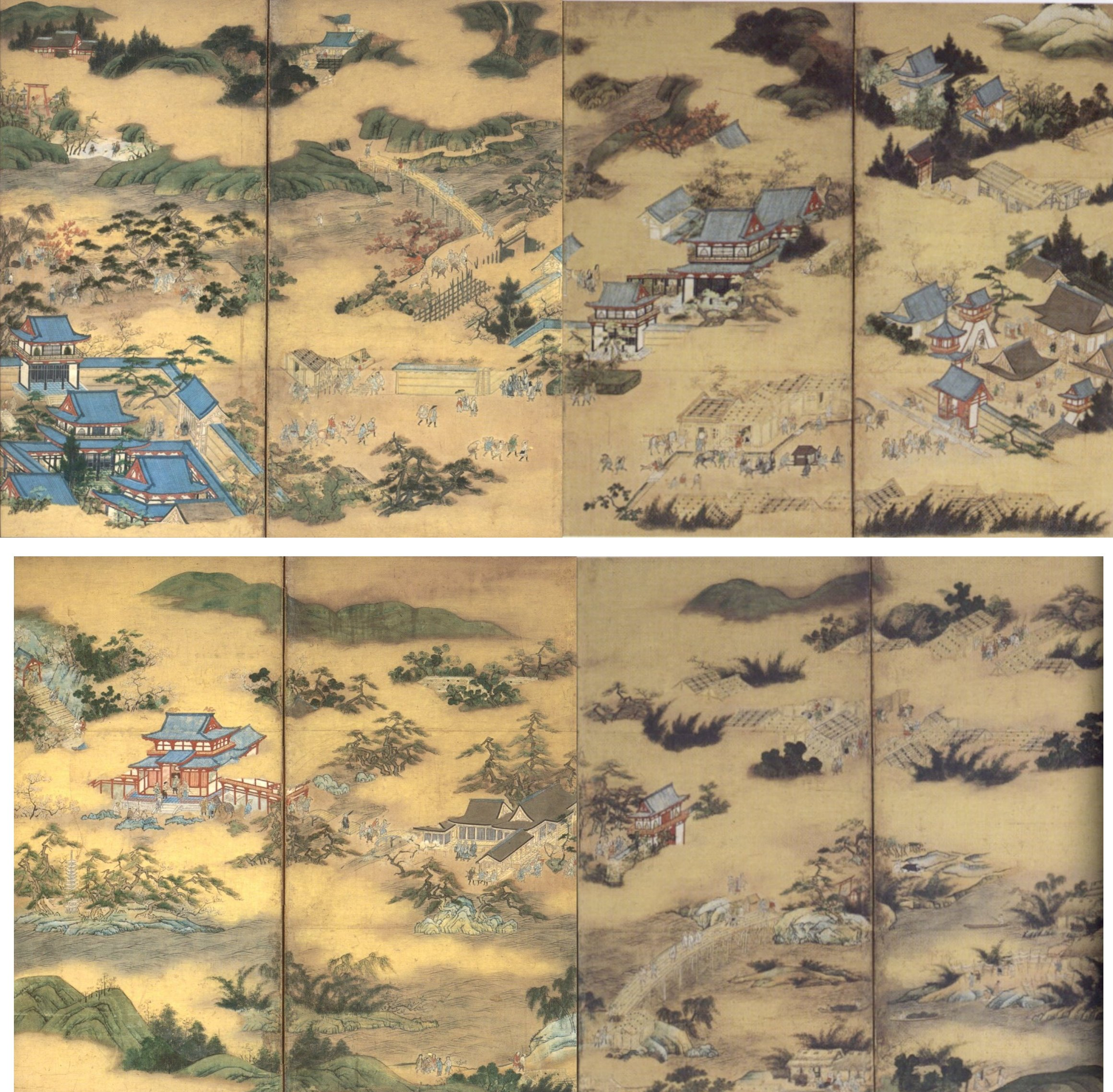 \Famous Views of Sagano (top) and Famous Views of Uji (bottom), pair of four-panel screens by Kanō Eitoku, late 1560s